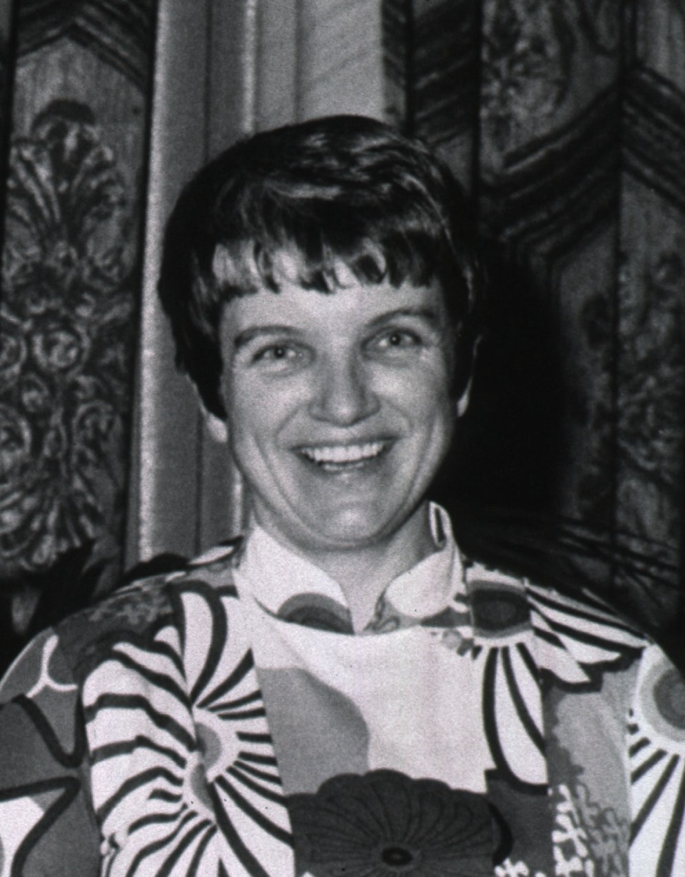 Dr. Brigid G. Leventhal, unknown date